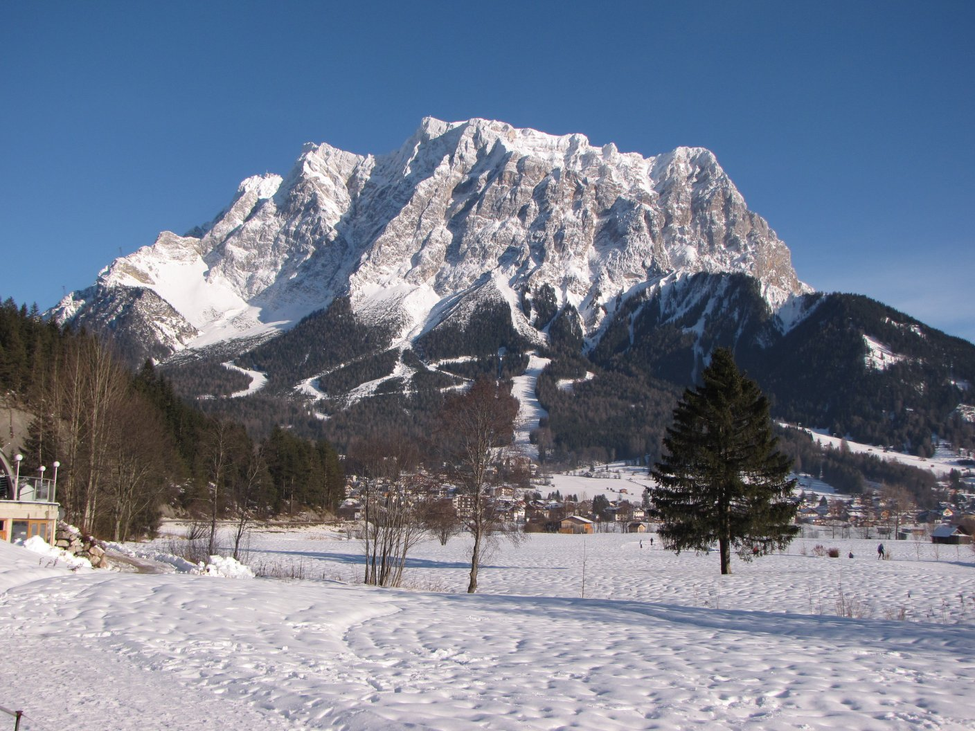 Wetterstein, from Ehrwald direction Zugspitze